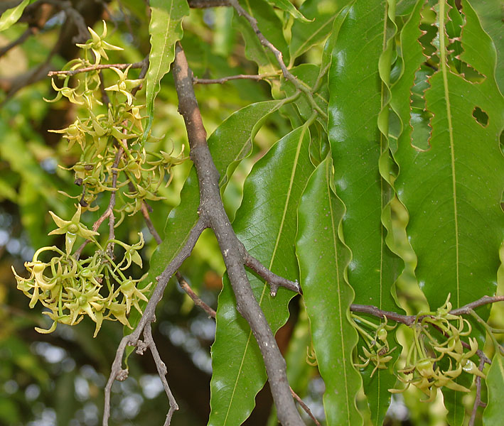 Polyalthia longifolia - Ashok, Ashoka, False ashoka, Green champa, Indian Fir tree, Mast tree, Telegraph pole tree, glodogan tiang, Asopalav or Devadaru near Hyderabad, India.